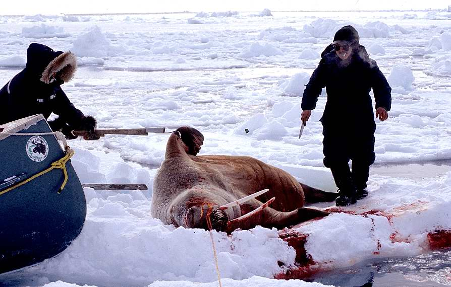 Atlantic walrus (Odobenus rosmarus rosmarus), hunt on ice floe in Hudson Strait near Cape Dorset (Nunavut, Canada) I